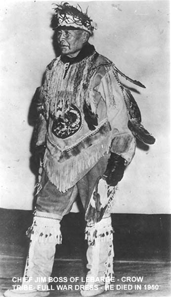 Chief Jim Boss of Lake Lebarge, in full war dress. Jim Boss was the hereditary Chief of the Southern Tutchone people. He was also a successful entrepreneur who sold firewood, fish and furs to gold-seekers passing through the Whitehorse area during the Klondike Gold Rush. Chief Jim Boss died in 1950. This photo was a gift to Rolf Hougen from Fred Boss.